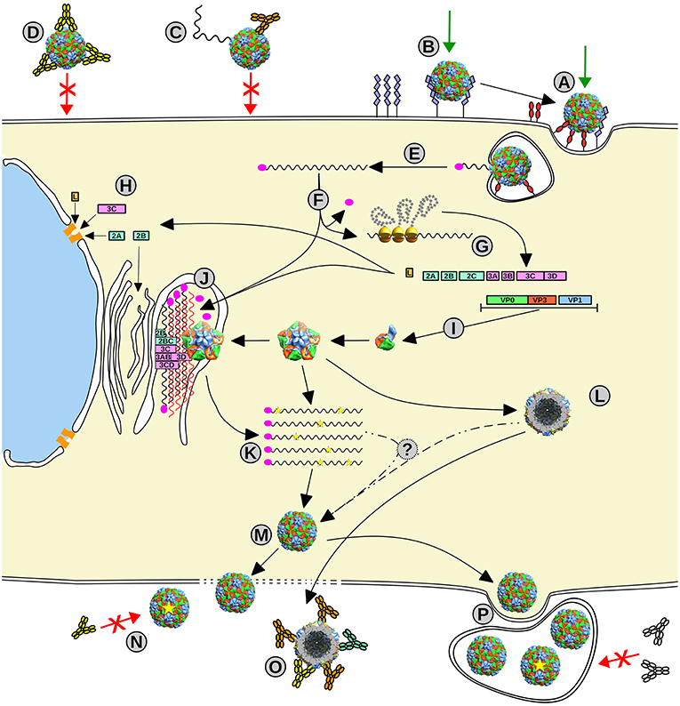 Picornavirus life cycle. (A, B) Picornavirus uses different receptors to enter the cell, some implicated in the signaling internalization (A), meanwhile others can act as carriers that transport the viral particle to meet the primary receptor (B). (C, D) This infection event can be impeded by the action of specific neutralizing antibodies that can destabilize the viral particle (C) or opsonize or stabilize the particle to impair receptor binding or conformational changes required for infection (D). (E) Once the virus enters the cell, the viral RNA delivery mechanism is triggered, and the viral genome (black wavy line) is released into the cytoplasm. (F) Upon removal of VPg (magenta oval), the genome starts the IRES-driven translation leading to the production of the viral polyprotein. (G) The proteolytic cascade produces all viral proteins, structural and non-structural. (H) Some proteins act by hijacking the host cellular systems such as the nuclear pore, the cell translation machinery, and the apoptotic systems and initiate the remodeling of the internal cell membranes. (I) The structural proteins assemble into the capsid intermediates, the protomer and the pentamer, and also procapsids (L). (J) The formed replication complex assembled from non-structural proteins and modified internal membranes firing the picornaviral genome replication by the 3D polymerase via RNA complementary (red wavy lines) and using VPg as a primer. (K) The new progeny genomes including eventual mutations (yellow stars). (M) Mature virions assemble from pentamers that surround and package the new viral genomes. Viral particles escape from the cell by cell lysis or budding within membranes that can protect the viral progeny (P). (N) Some progeny virus with mutations in their capsids (yellow star) may escape from to the action of specific NAbs. (O) Empty capsids can act as molecular decoys for Abs to protect the infecting particles from neutralization.